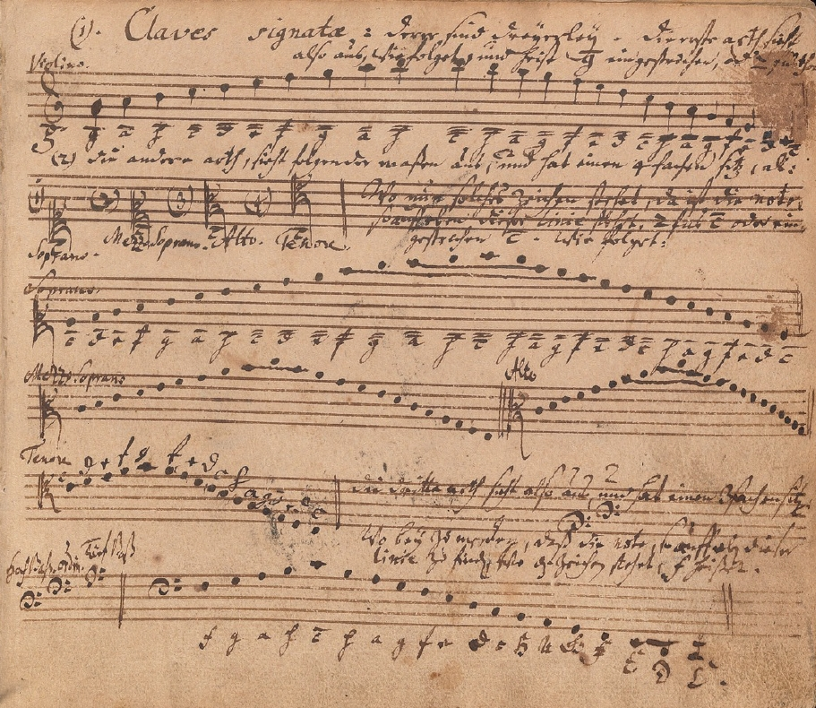 Explanation of clefs written in Johann Sebastian Bach's hand, from the "Klavierbüchlein für Wilhelm Friedemann Bach".